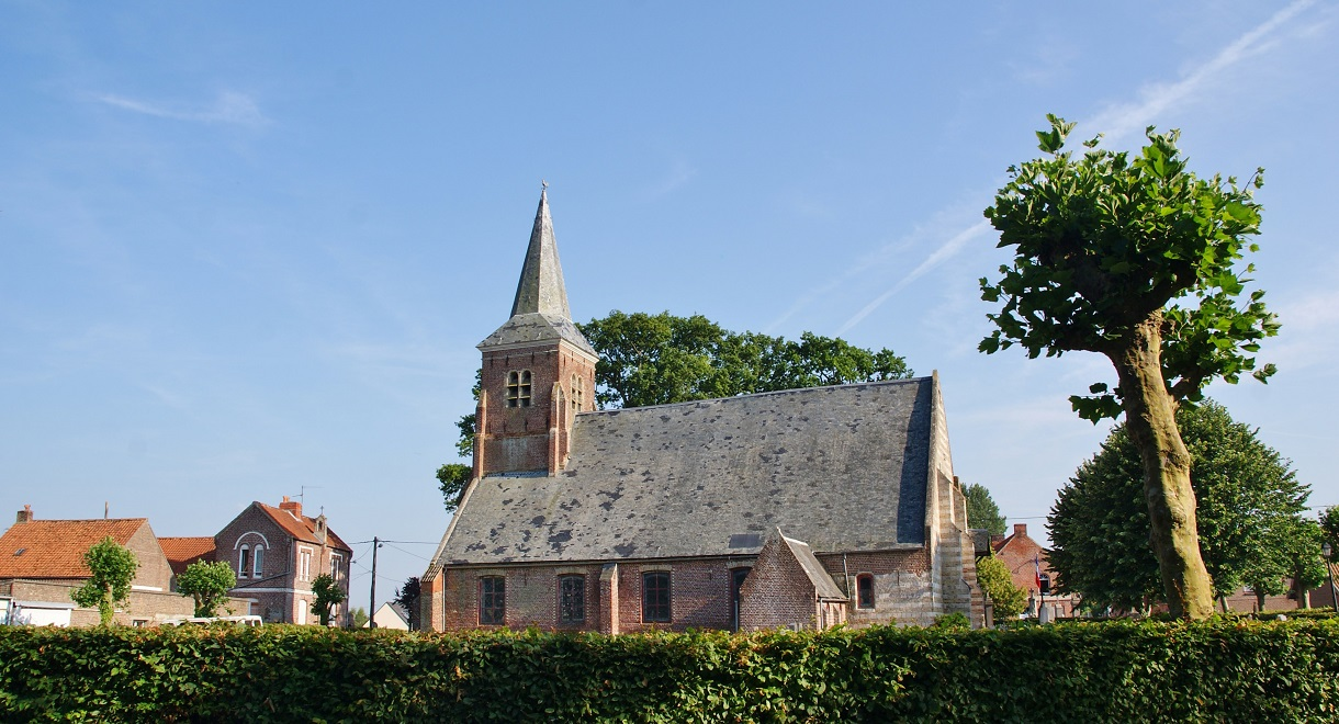 L'église